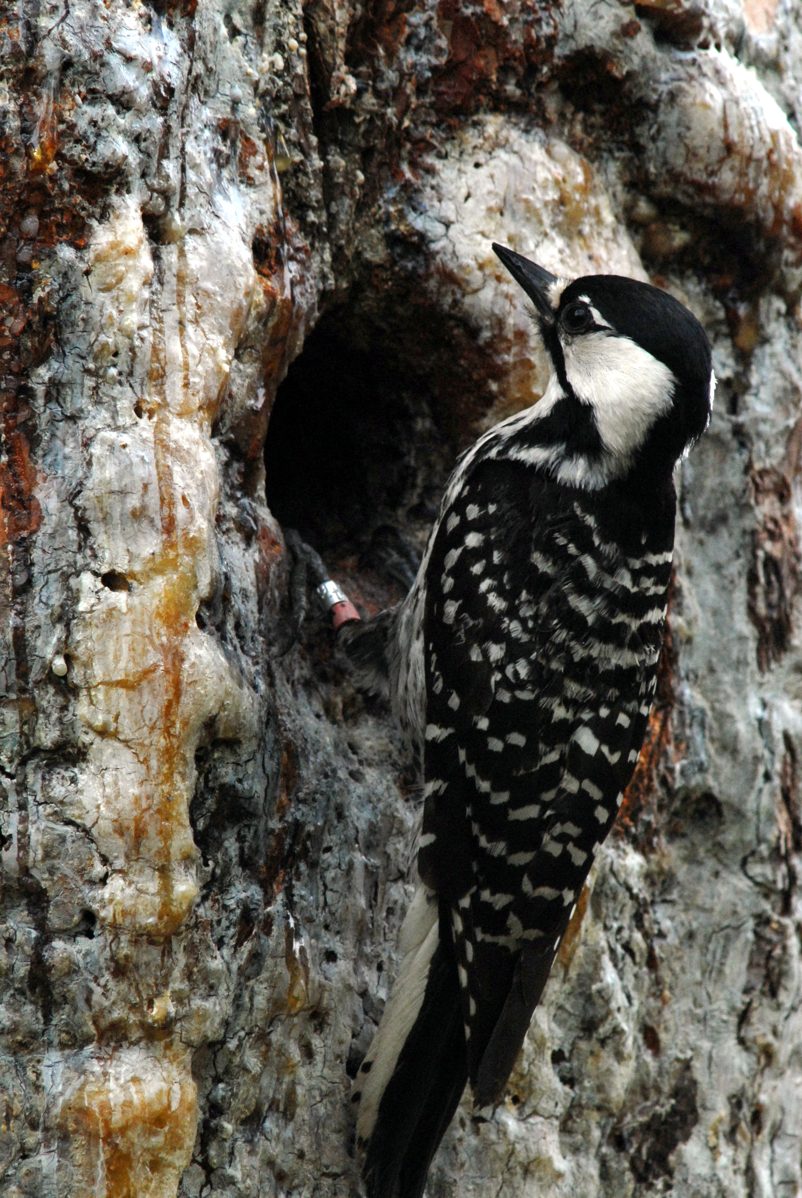 This endangered red-cockaded woodpecker is feeding young at the nest, in a cavity of a longleaf pine in Georgia. Active management and restoration of longleaf forests can help recover this species. Credit: John Maxwell for USFWS